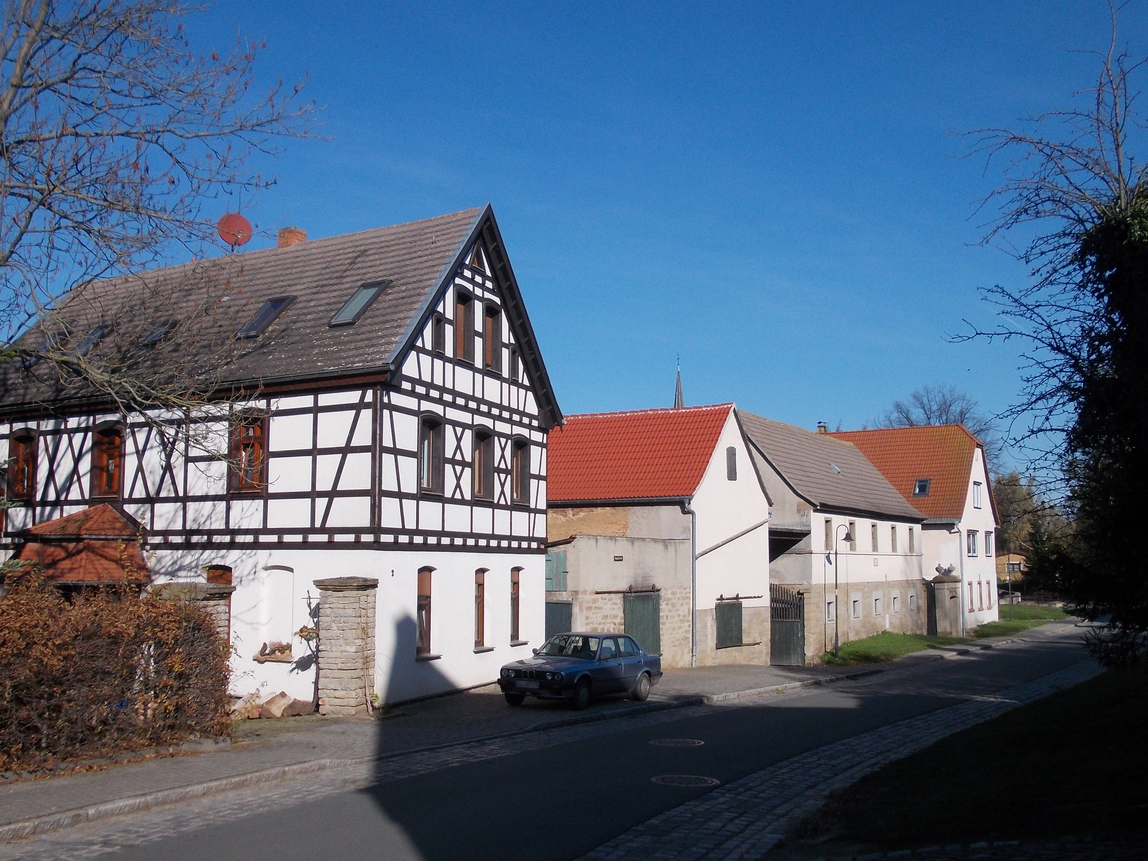 Houses at Hauptstrasse in Kretzschau (district: Burgenlandkreis, Saxony-Anhalt)